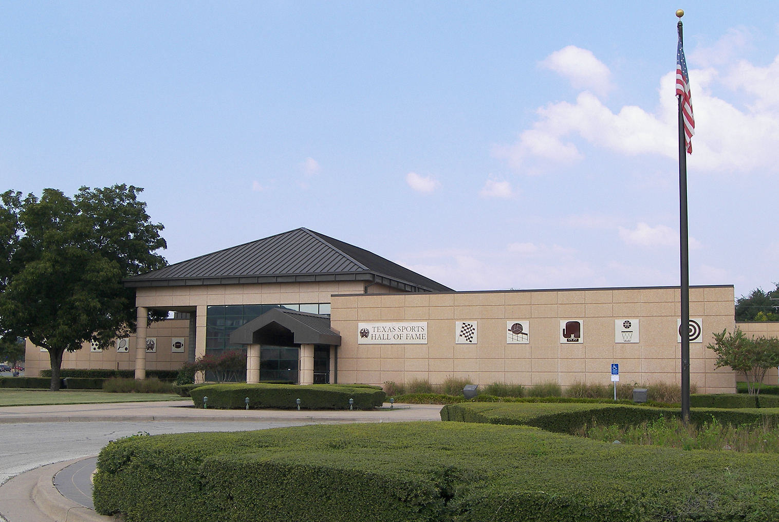 The Texas Sports Hall of Fame located in Waco, Texas, United States.